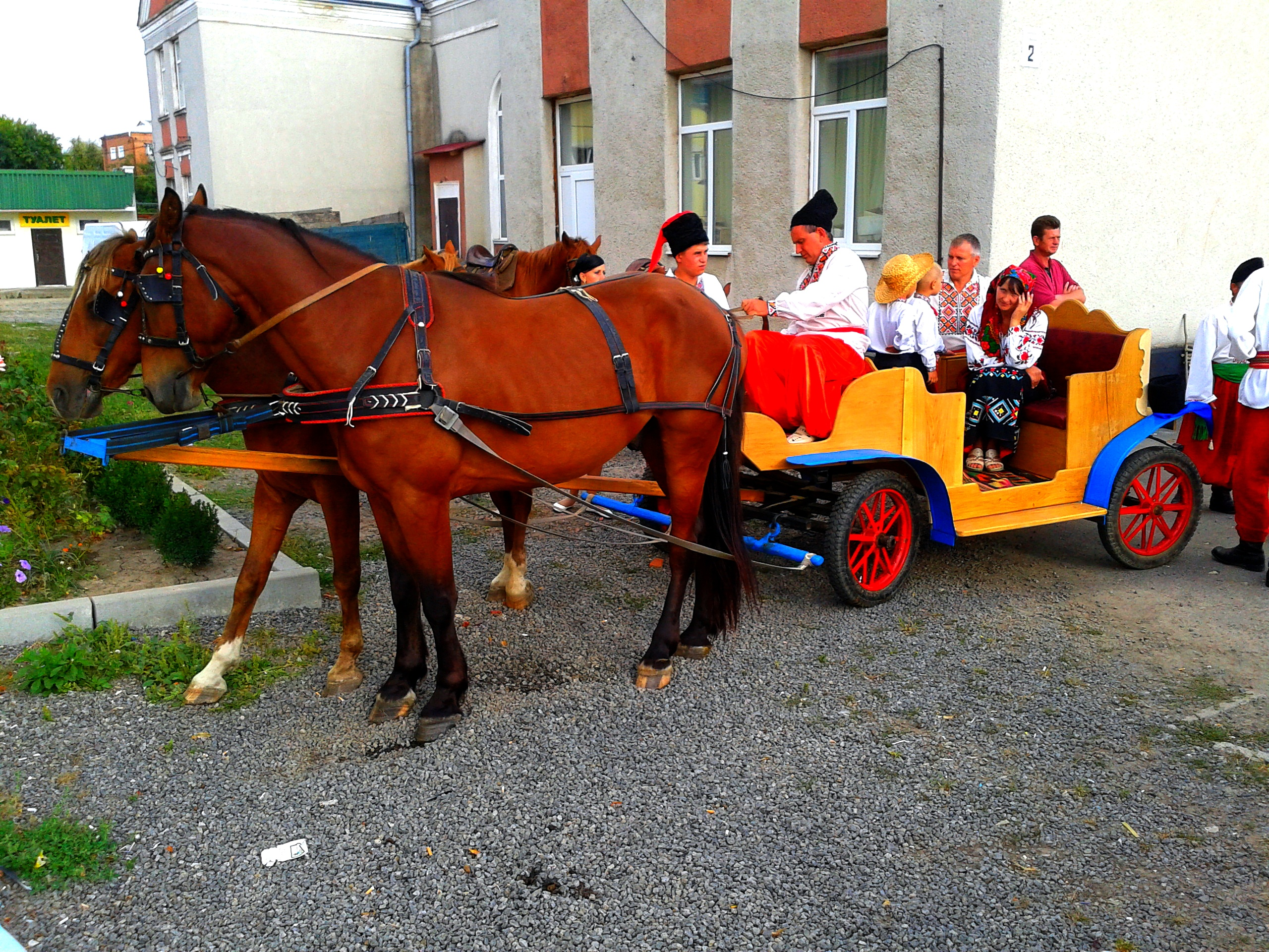 UKRAINIAN FOLK FESTIVAL TOWN OF BAR VINNYTSIA REGION STATE OF UKRAINE: UKRAINIAN HORSE RIDERS